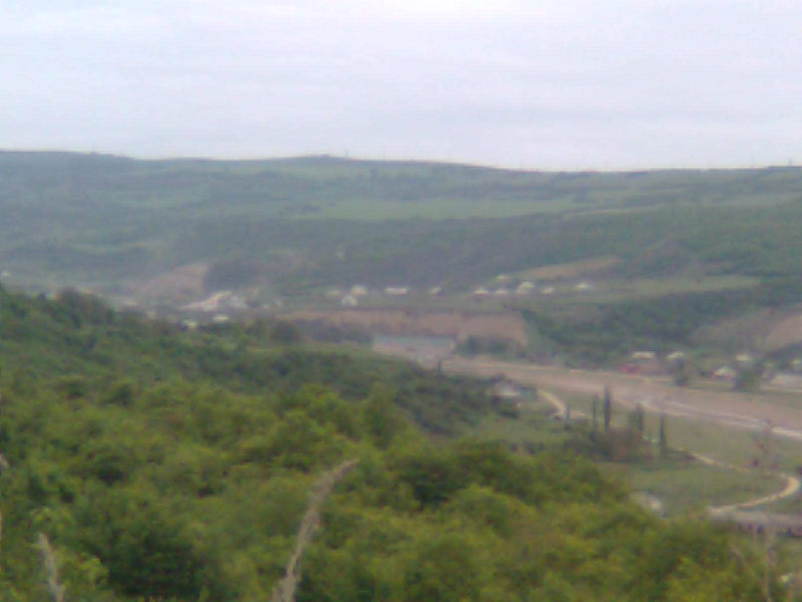 Vid na selo Banayyurt